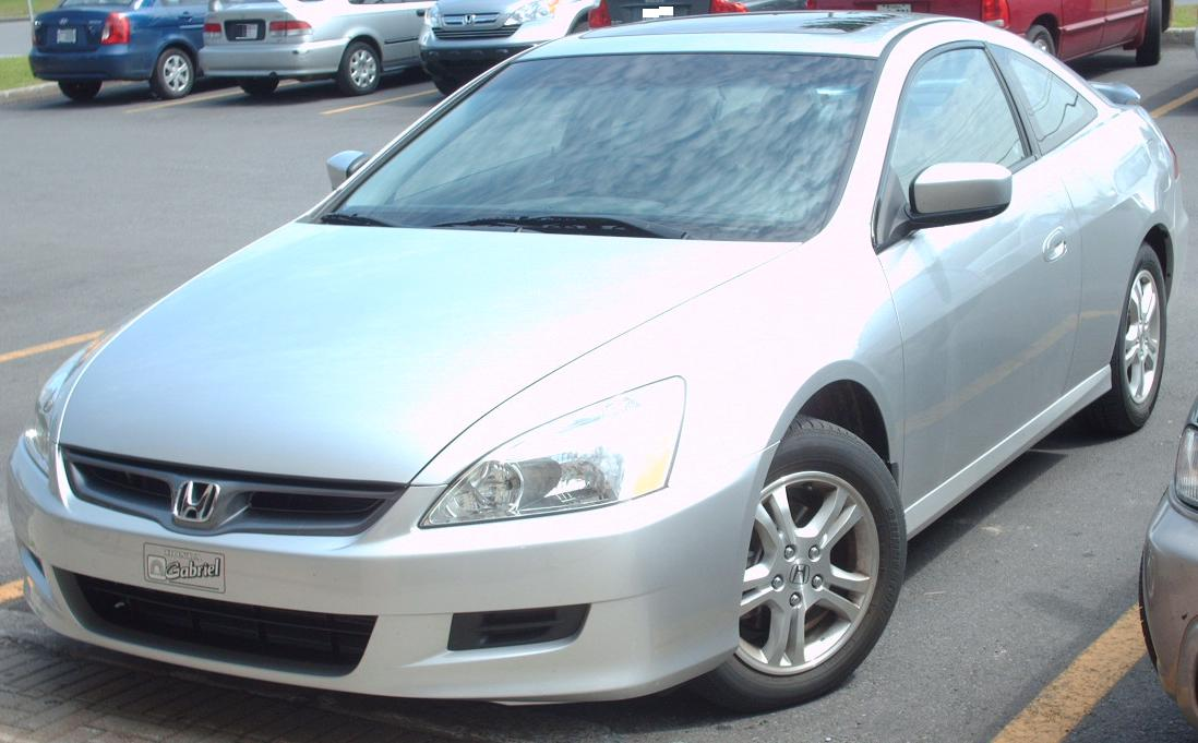 2006-2007 Honda Accord coupe photographed in Montreal, Quebec, Canada.